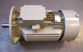 8kW induction machine